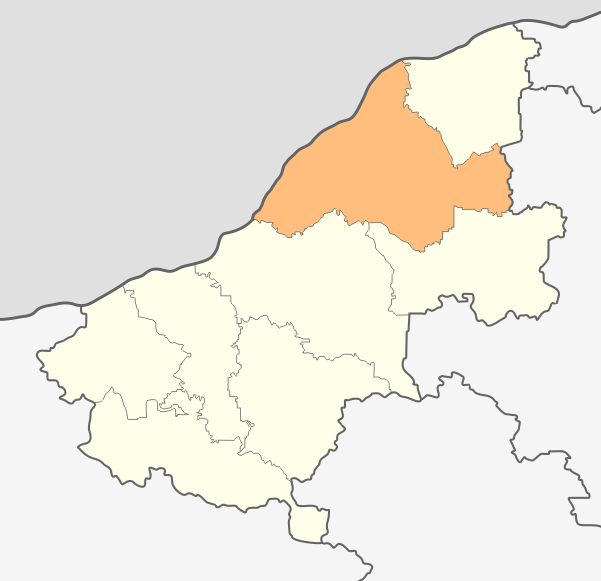 Map of Ruse municipality, Ruse Province